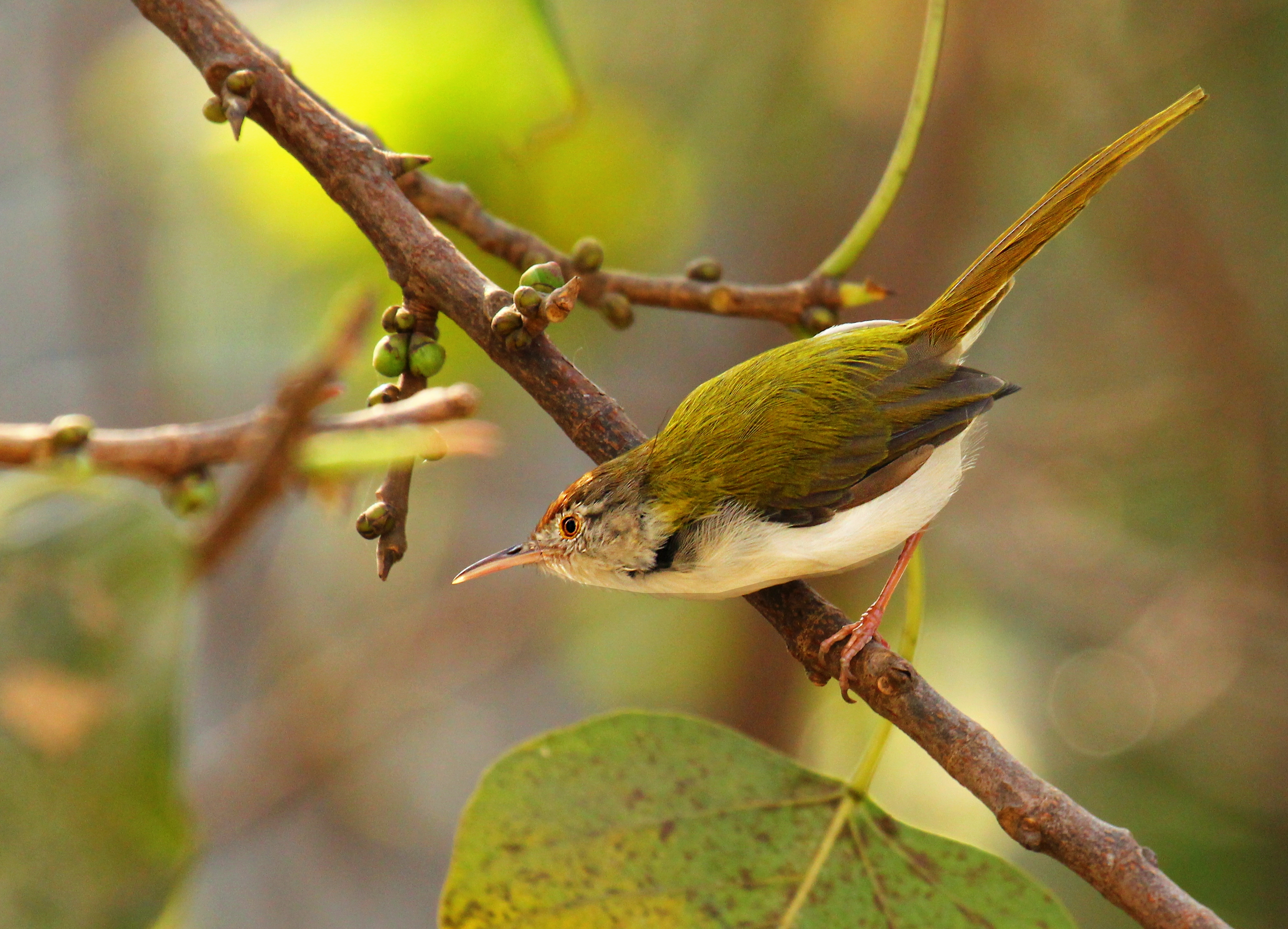 Common Tailorbird (Orthotomus sutorius) . Taken in Mulund, Mumbai, India in November 2011